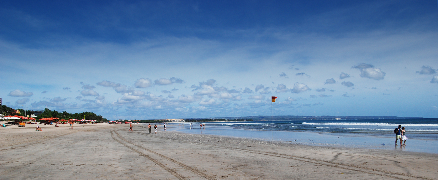 As you can see it wasn't crowded for a peak season. Wonder why?